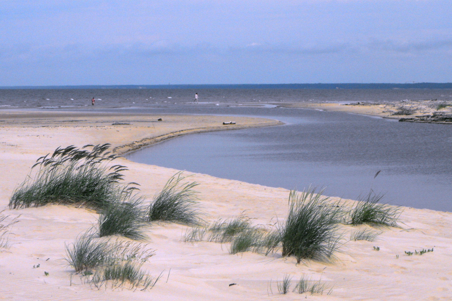 Lilaste entering gulf of Riga